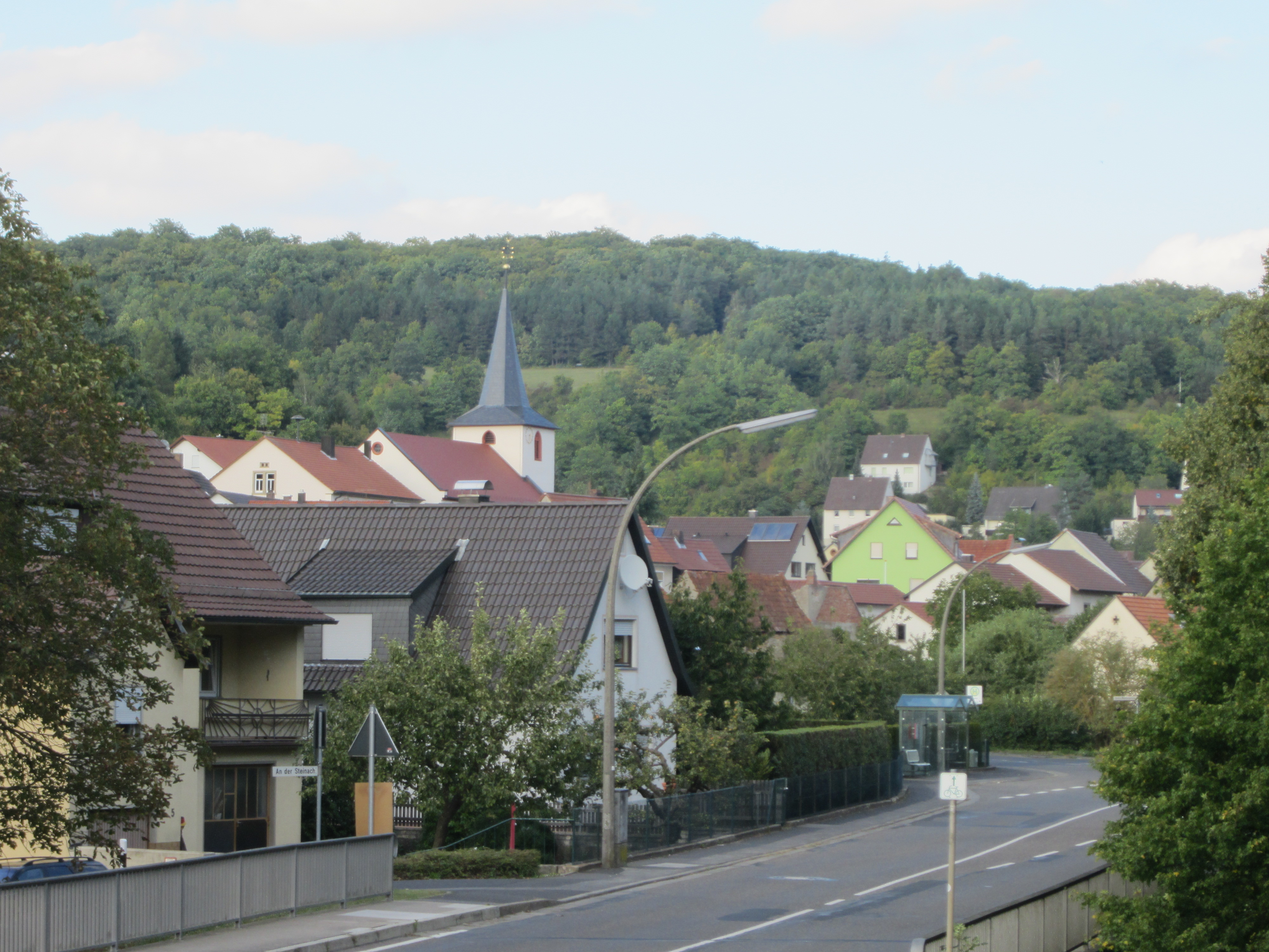 View over Marktsteinach